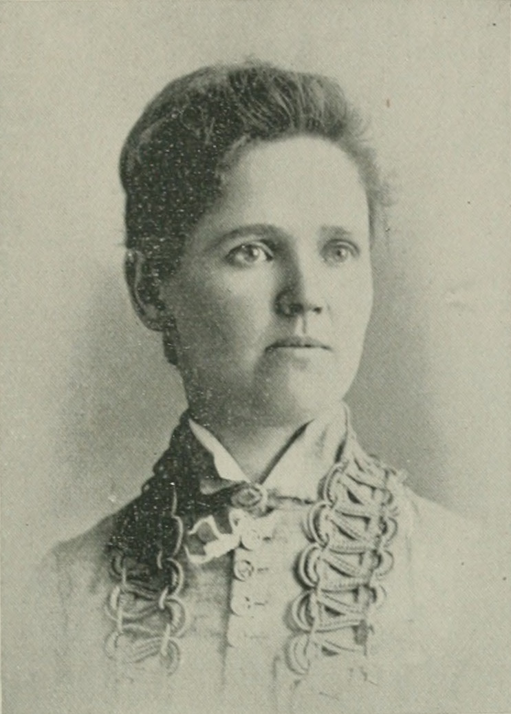 A Woman of the Century